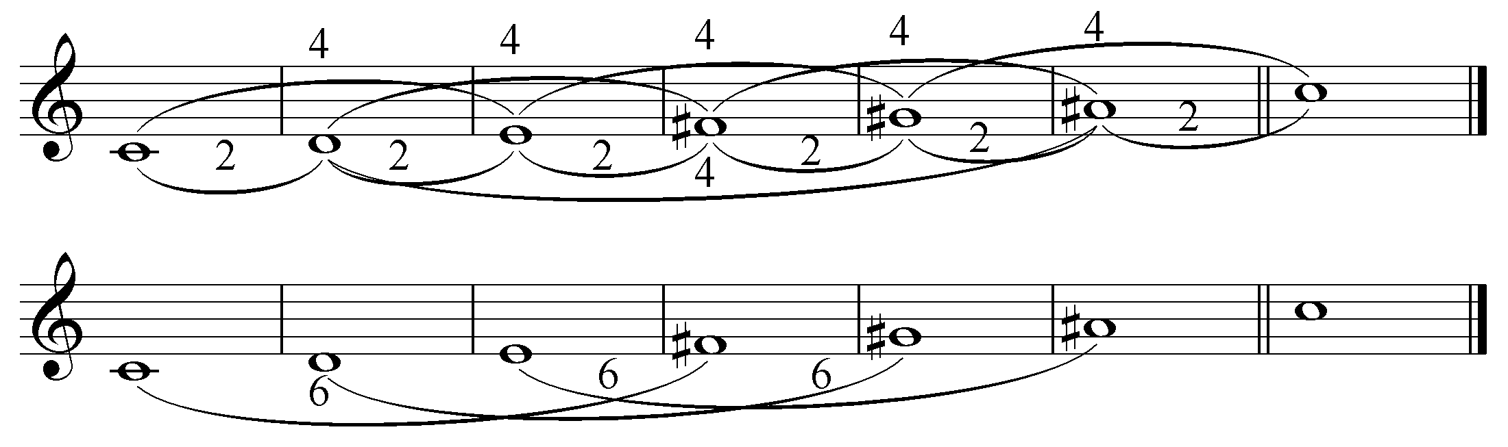 Interval classes of the whole tone scale labelled to show the lack of the deep scale property: each interval class does NOT appear a unique number of times.